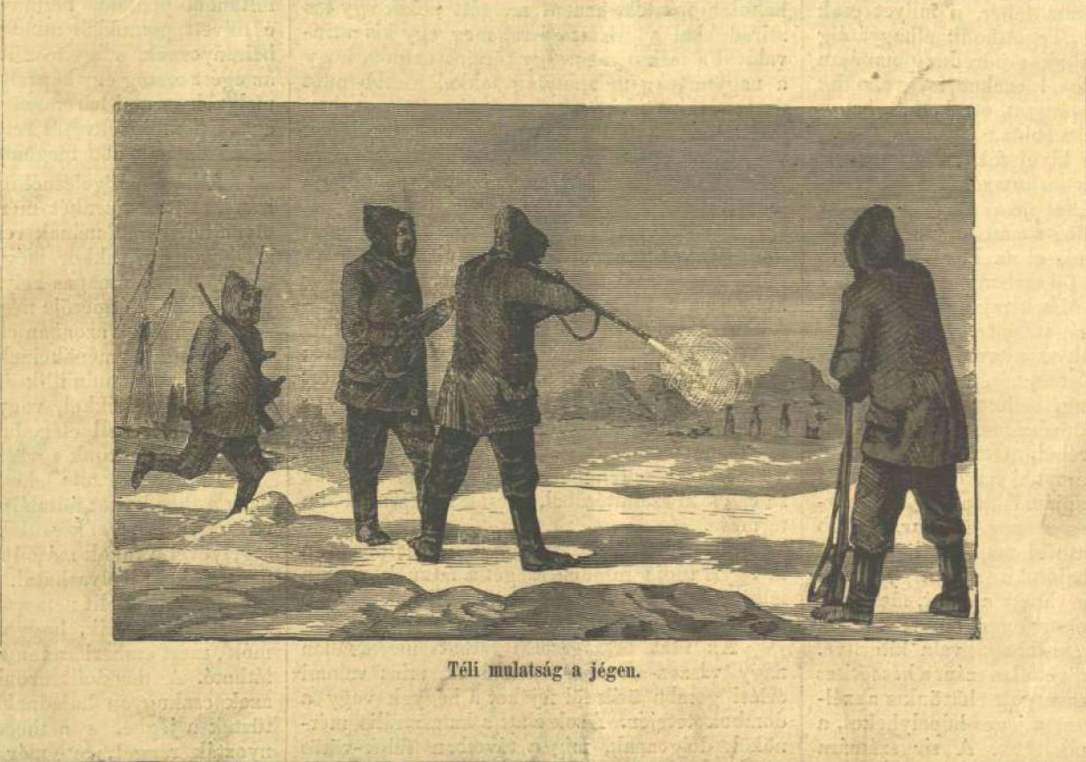 Winterjoke: The members of the Austro-Hungarian North Pole Expedition shooting empty bottles.